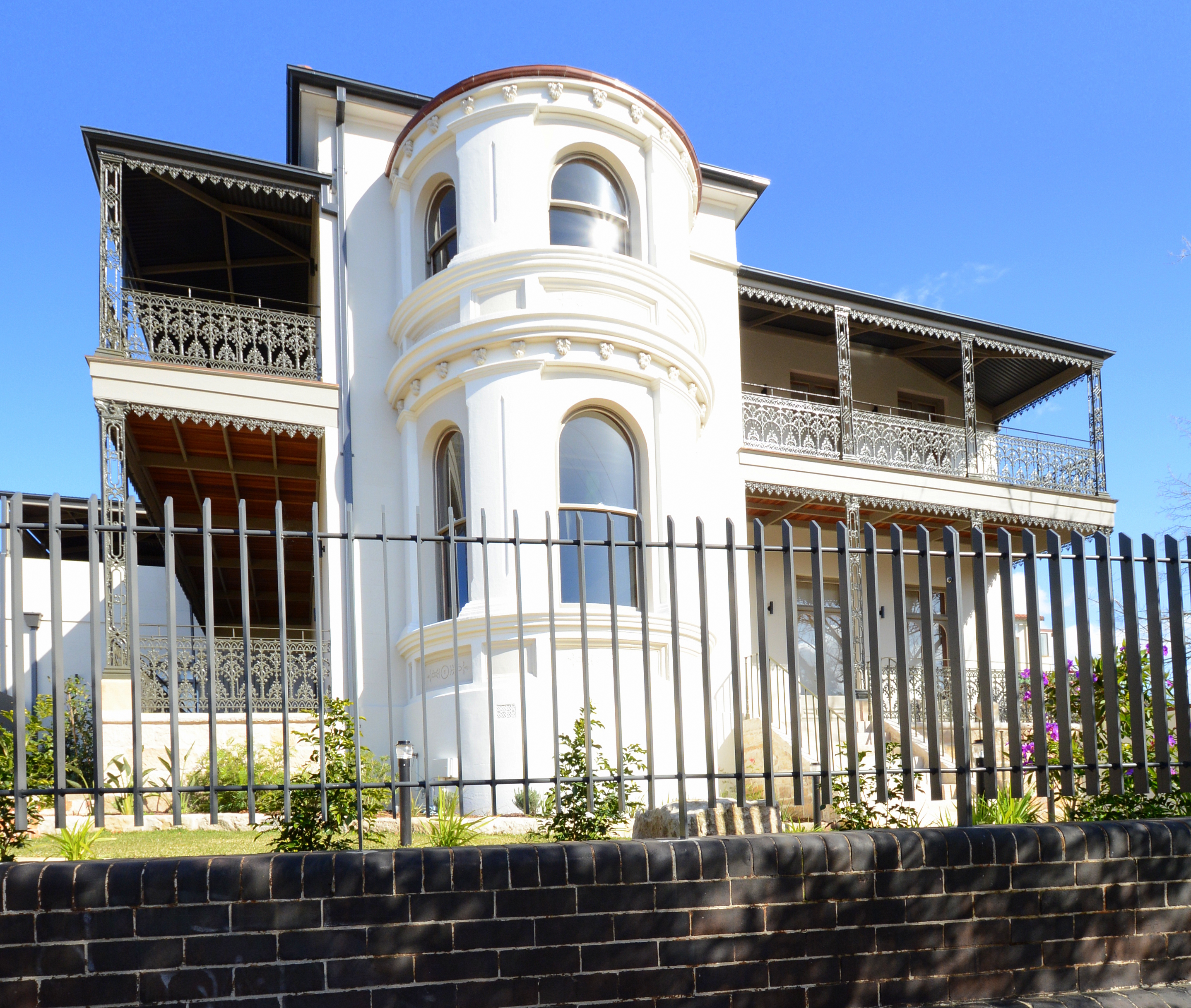 "Lymerston", Hillcrest Street, Tempe, Sydney